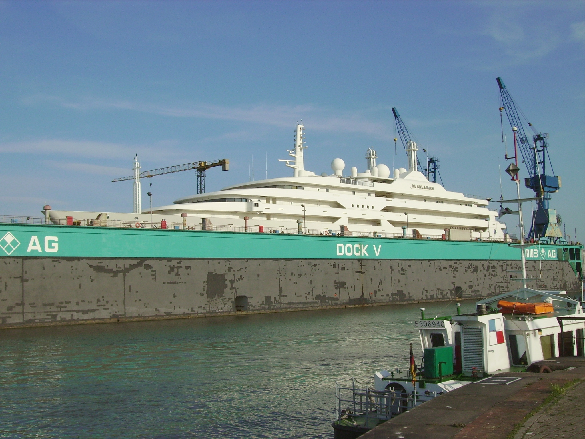 The yacht Al-Salaman in the floating dock of MWB